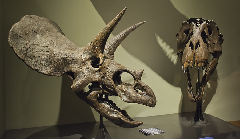 Skulls of Triceratops (left) and Tyrannosaurus (right), Vienna's Natural History Museum Vienna Natural History Museum, Austria, 2014 Wien Naturhistorisches Museum, Osterreich, 2014 המוזיאון להיסטוריה של הטבע, וינה, אוסטריה, 2014 This image was created by Zachi Evenor צחי אבנור and is released under Creative Commons CC-BY license. When using this image credit it to Zachi Evenor (in Hebrew for use in Israel: צחי אבנור). Please avoid using these images in an abusive or offensive manner. Please link to the original image on Wikimedia Commons or Flickr if possible. For more free to use images visit Category:Photographs by Zachi Evenor. For non-free images visit Flickr: . Enjoy this image :)